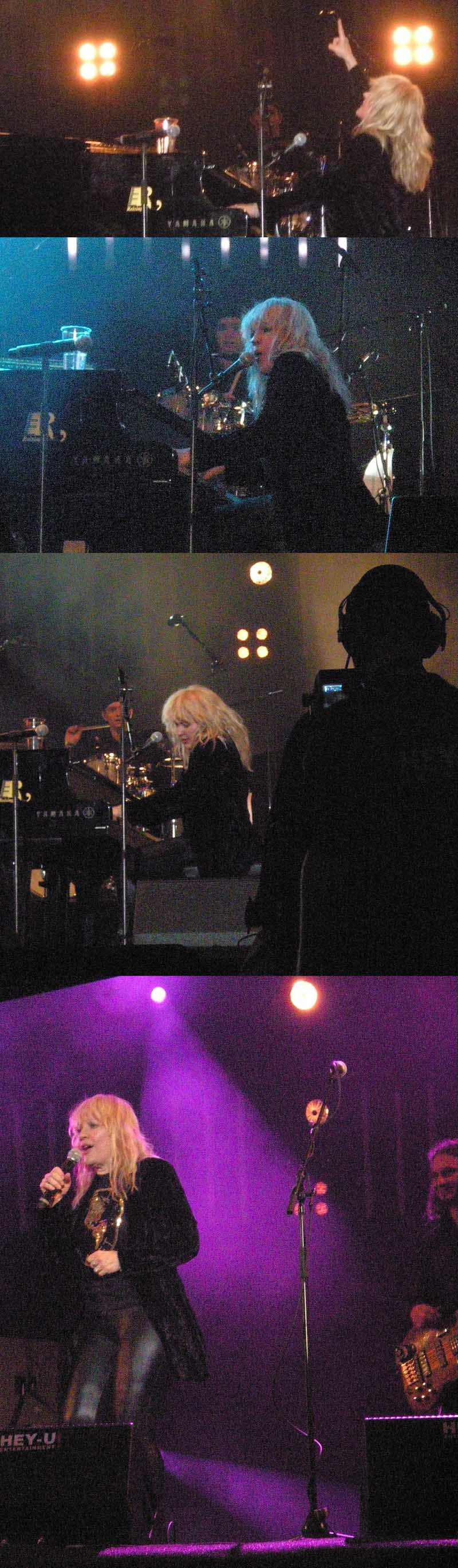 Donauinselfest 20090627 Chi Coltrane series v.a Note: EXIF time is set to UTC, which is local time-2.